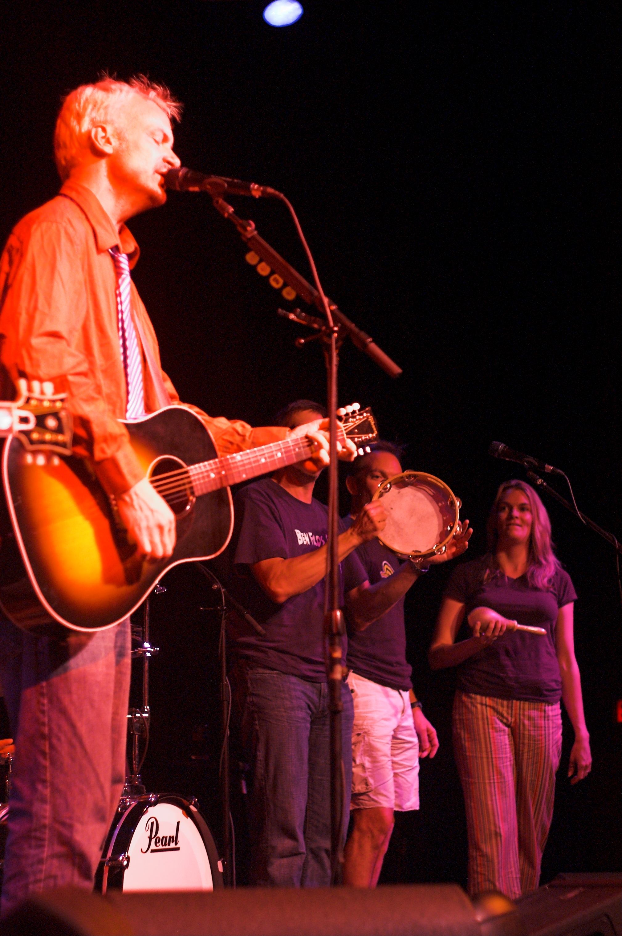 Fountains of Wayne performs at the Cedar Cultural Center in Minneapolis, MN in July 2009, photographed by Taylor Dahlin.